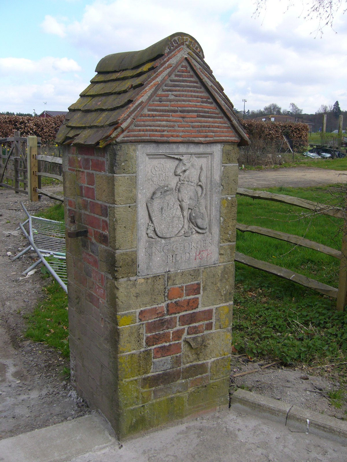 One gatepost of the King George's Field at grid reference TQ449542 in Costells Meadow, Westerham, Kent. An official document about the fields (copied to here) is insistent that these heraldic panels must be displayed ‘in perpetuity’. Unfortunately, at this site the other post is missing.